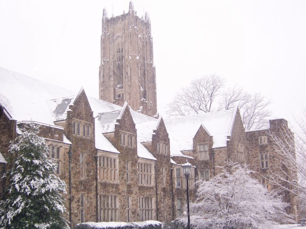 Halliburton Tower and Palmer Hall, Rhodes College